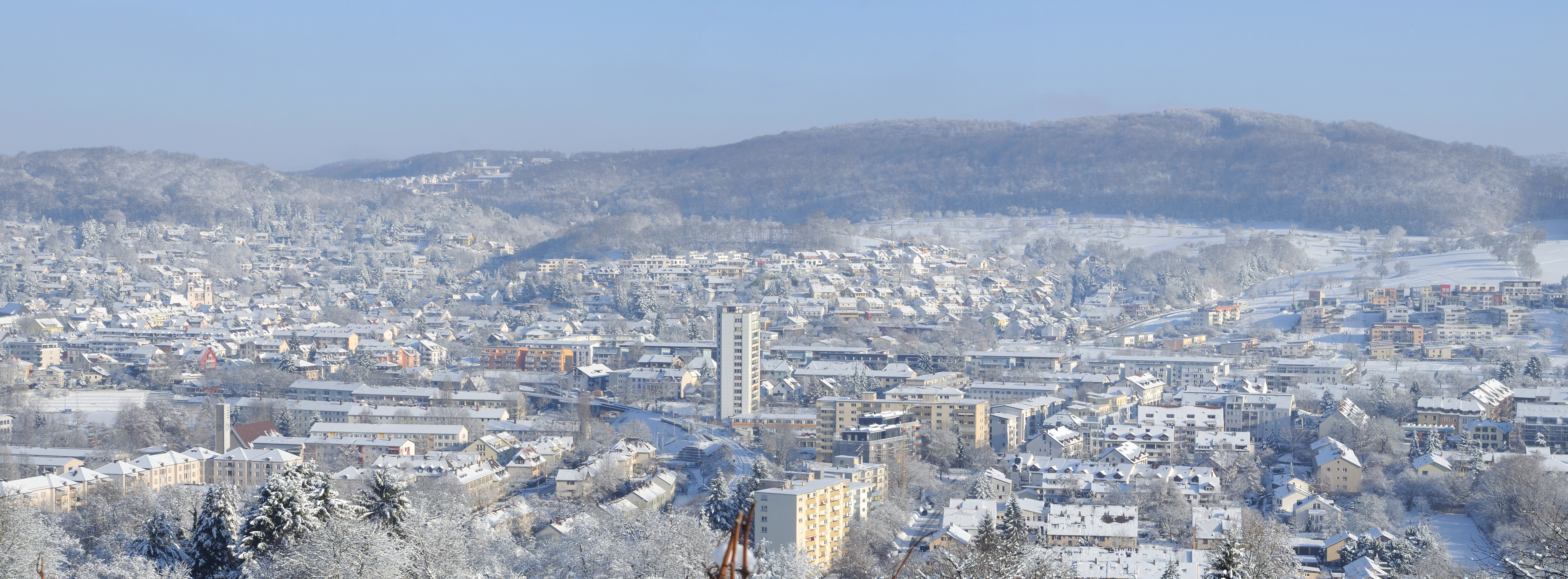 Lörrach-Stetten vom Tüllinger hill in winter time